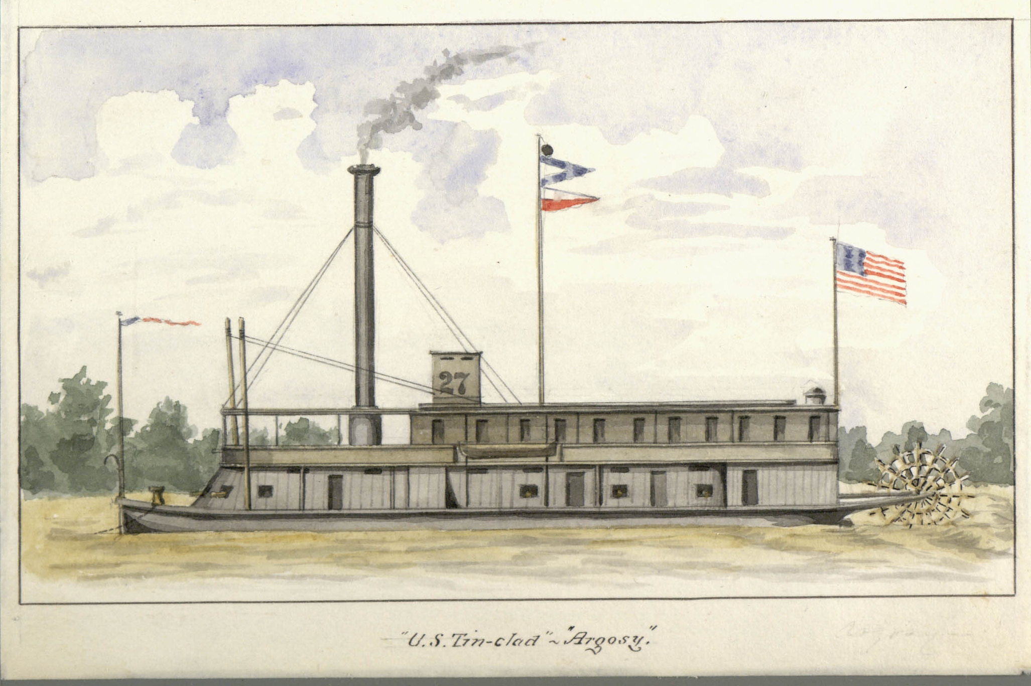 USS Argosy by Ens. D. M. N. Stouffer, ca. 1864-65, Library of Congress